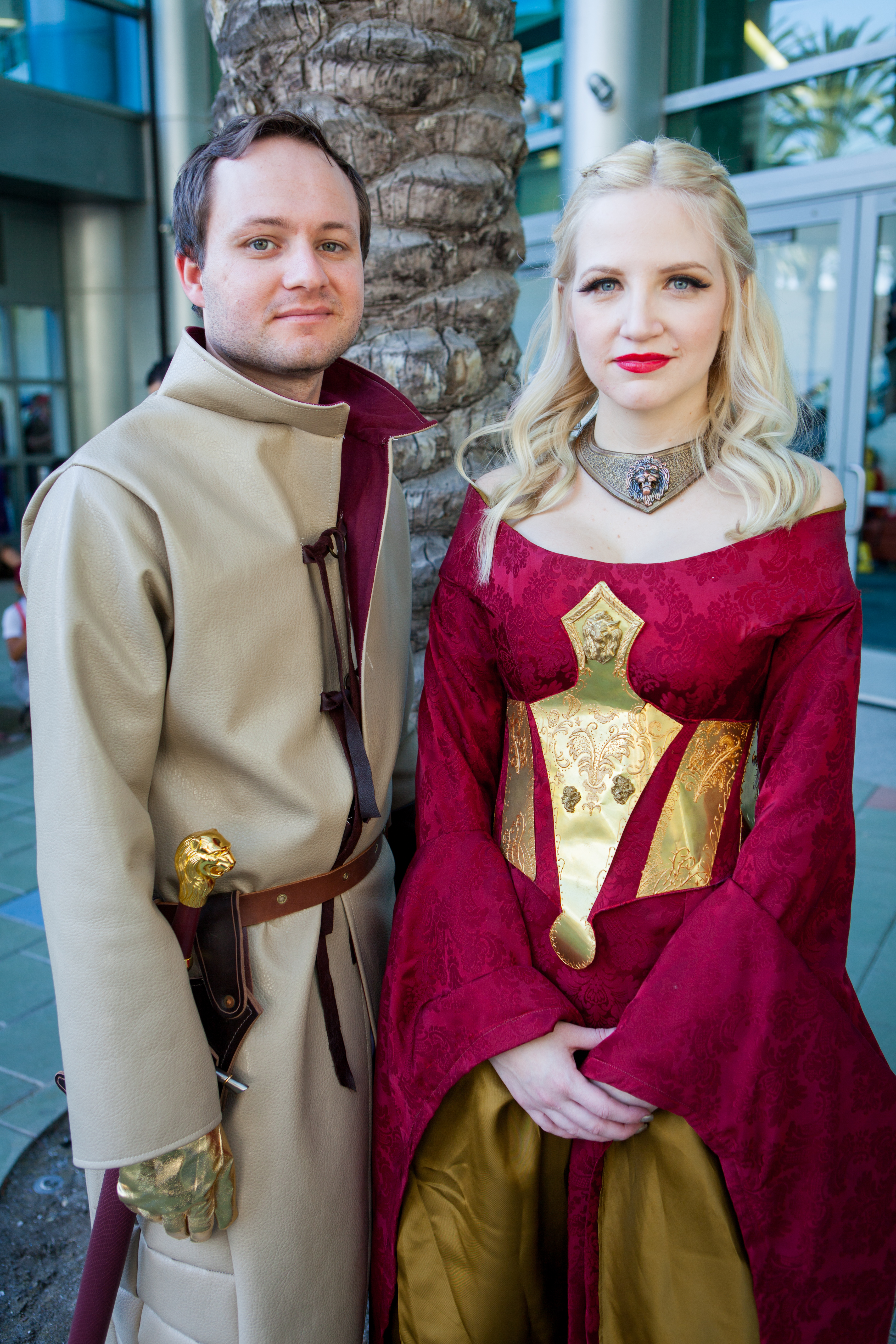 Wondercon 2015-7710